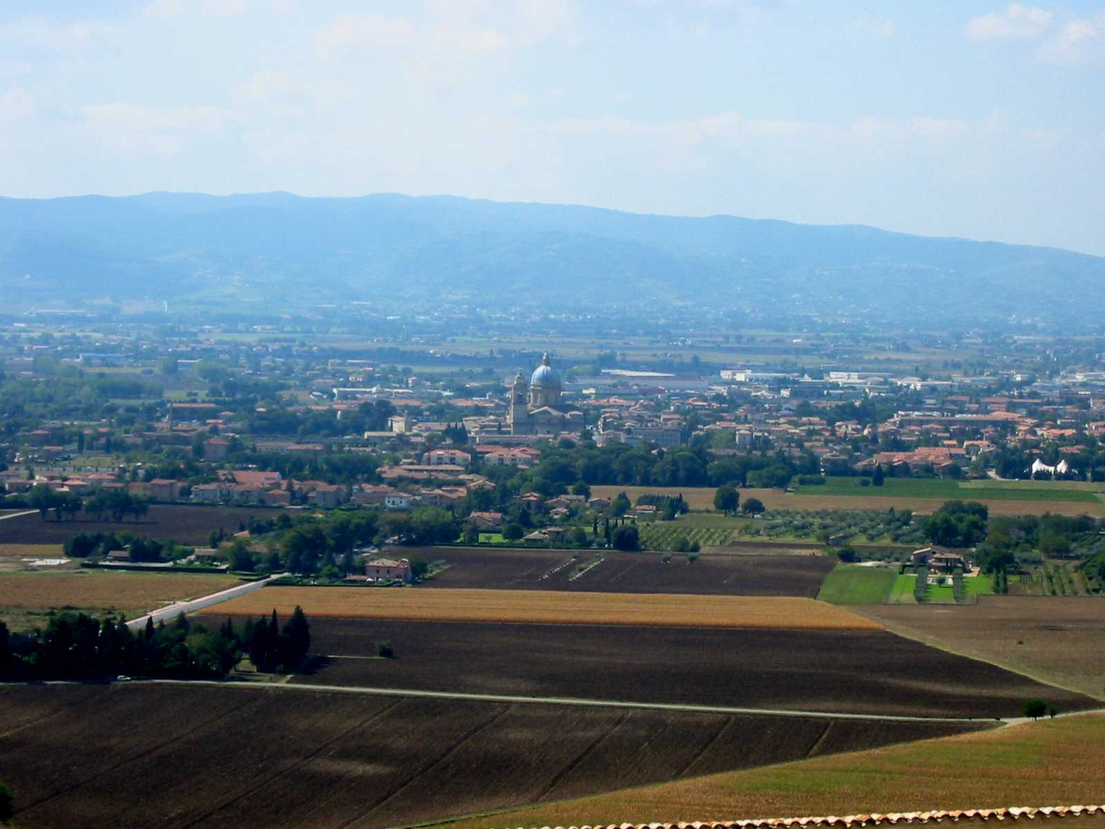 Panorama of Santa Maria degli Angeli, Assisi, Italy